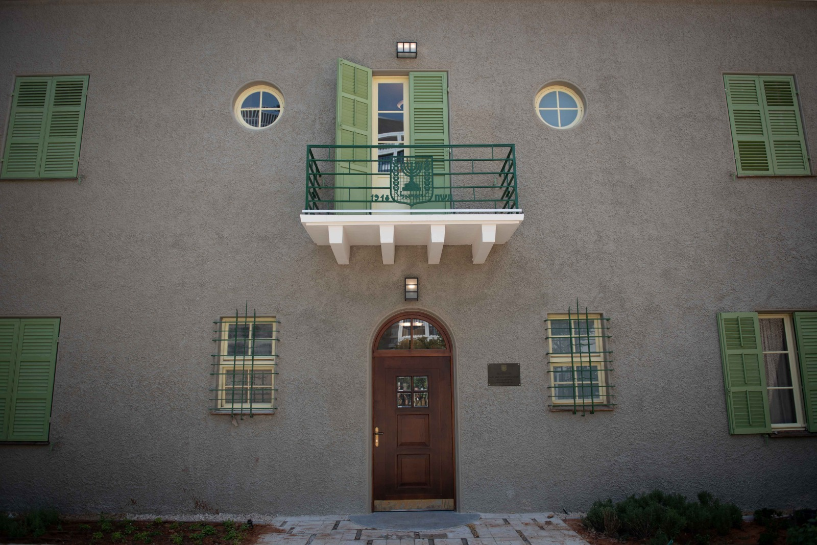 Depicted place: Prime Minister's Office